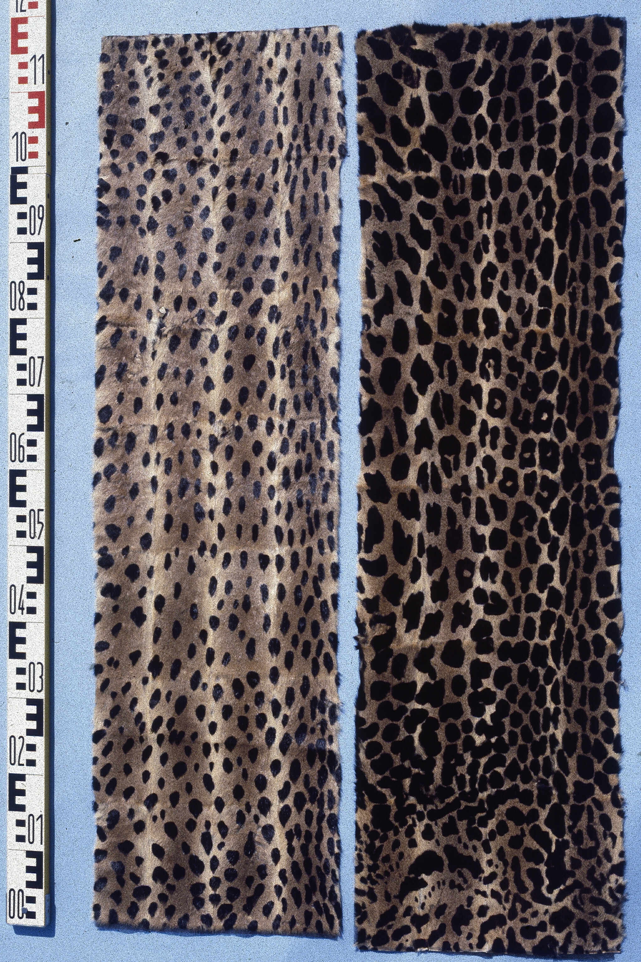 European Ground Squirrel (Spermophilus citellus), fur plates that has been stencilled. From the fur skin collection, Bundes-Pelzfachschule, Frankfurt/Main, Germany